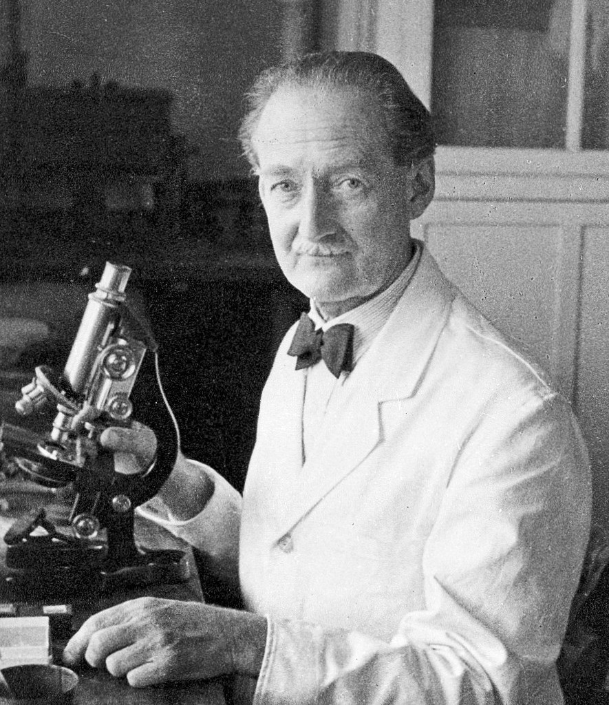 Honor Fell at her microscope in her lab at Strangeways, Cambridge in 1949.